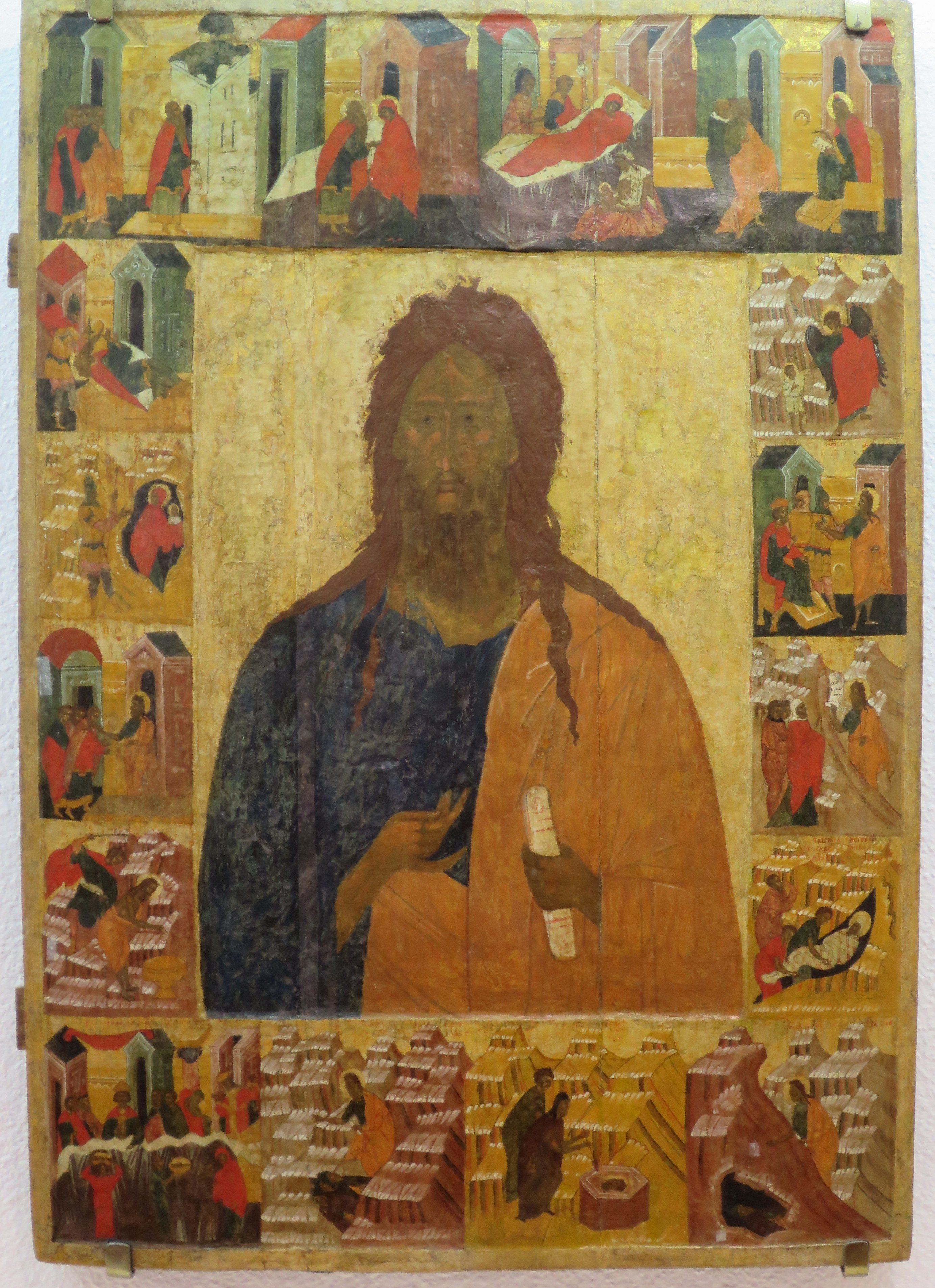 Russian icon, St. John the Forerunner with his Life, first half of 16th century, Arkhangelsk Regional Museum of Fine Arts